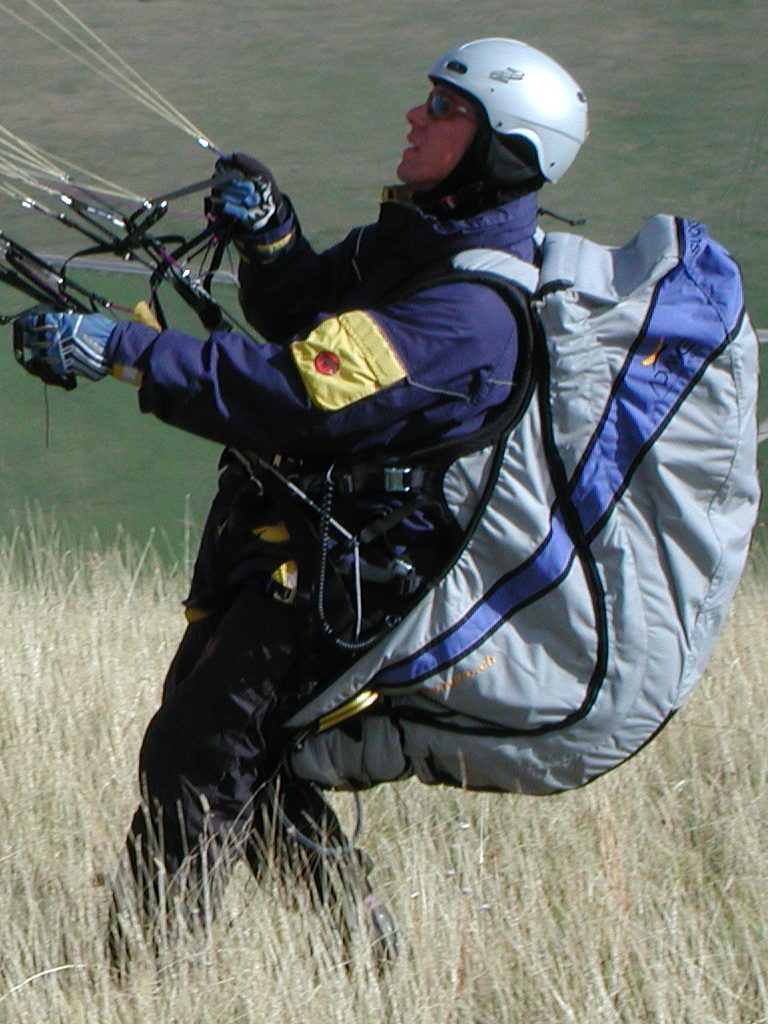 Paraglider harness